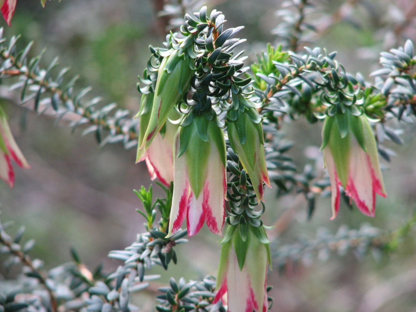 Darwinia meeboldii (cultivated, labelled) Maranoa Gardens, Balwyn, Victoria, Australia